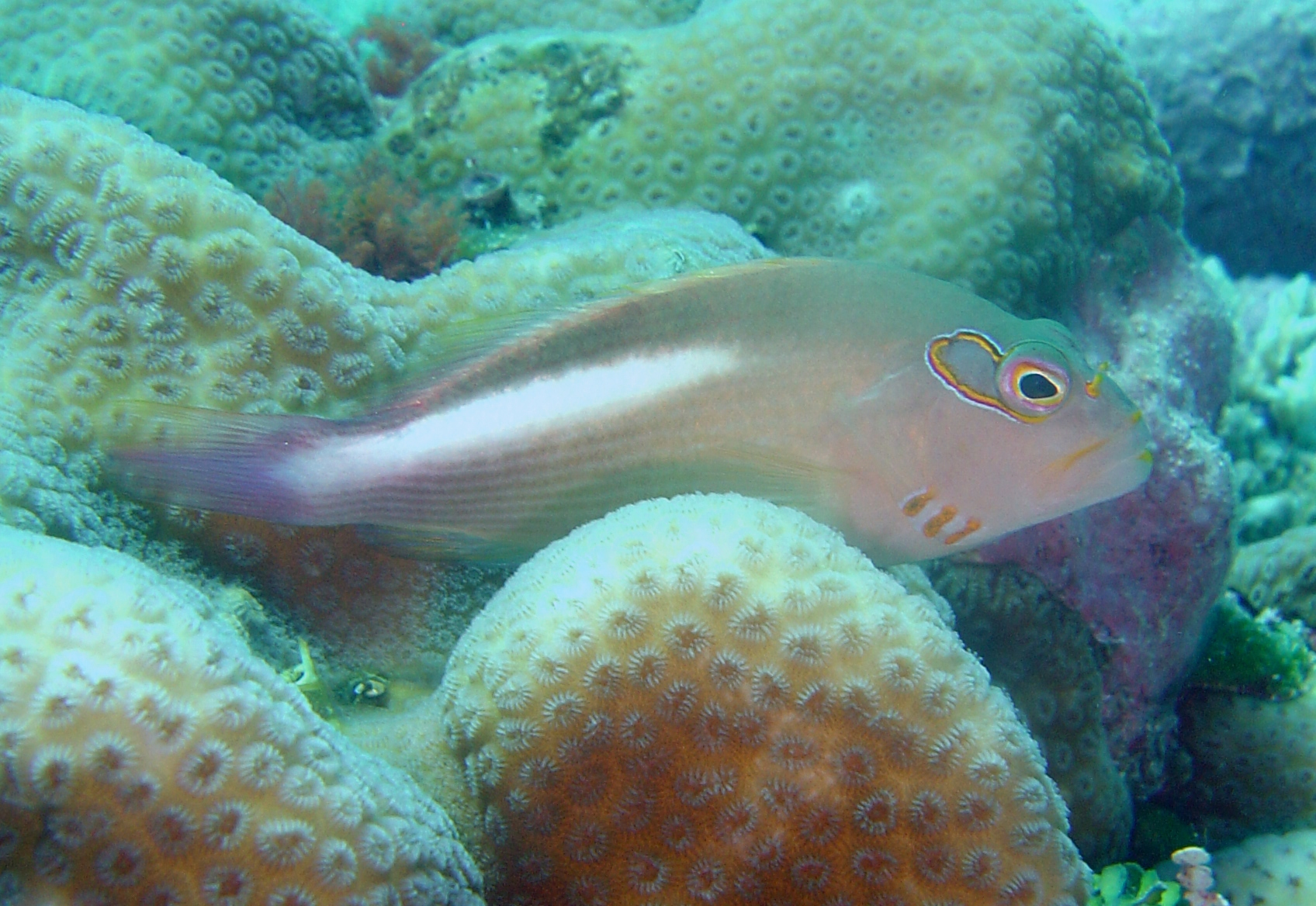 Arc-eye hawkfish (Paracirrhites arcatus) Image ID: reef0941, NOAA's Coral Kingdom Collection Location: Guam, Mariana Islands